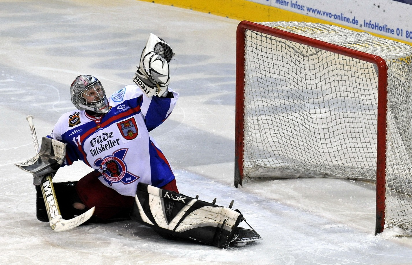 Roman_Kondelik, Hannover Indians 2007/08